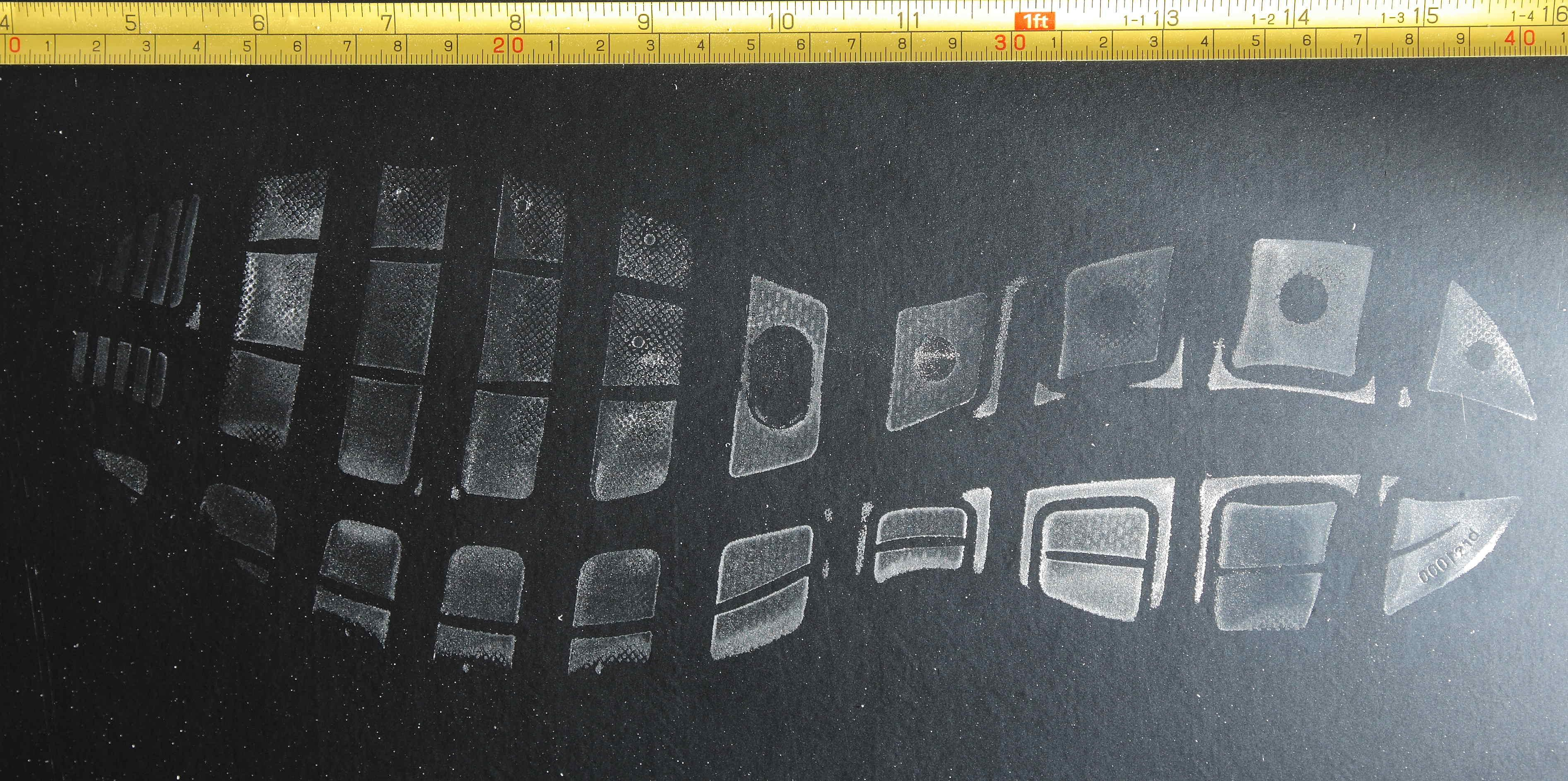 Photograph of a footwear impression / shoeprint left at a crime scene. Forensic investigators can use footwear impressions to link a suspect to a crime scene. For the impression above , a search of a footwear impression database will show that shoe which made the impression was: Manufactured by: “Nike” Model of footwear: “Nike Free Everyday” Size of shoe: US 9.5 or US 11 women’s.